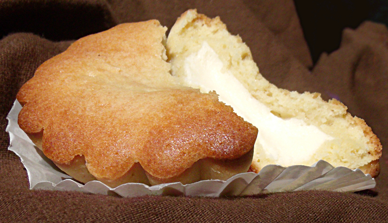 An Italian pastry called pasticiotto (plural pasticiotti), filled with ricotta cheese. Other common fillings include custard and chocolate.